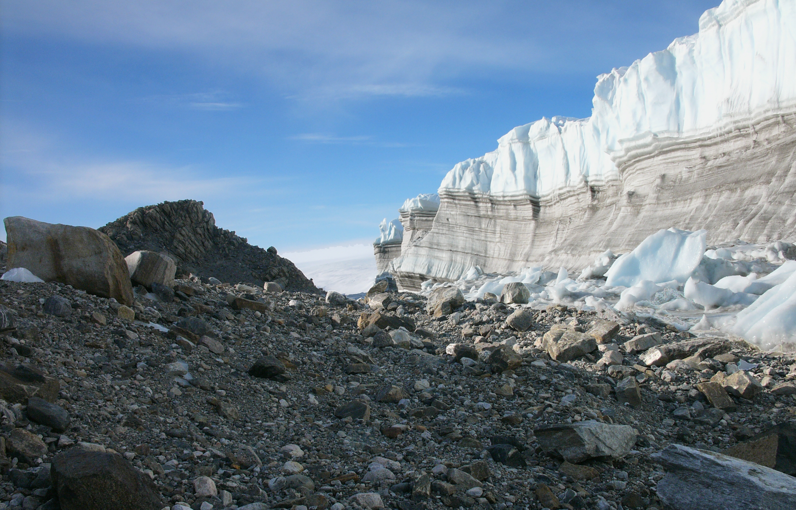 Edge of the Antarctic ice sheet on Mather Island, Prydz Bay, Antarctica; sediment layers inside the ice; morainic material on the left; observed during geological sampling of the island during an expedition of RV POLARSTERN (ANT-XXIII/9).